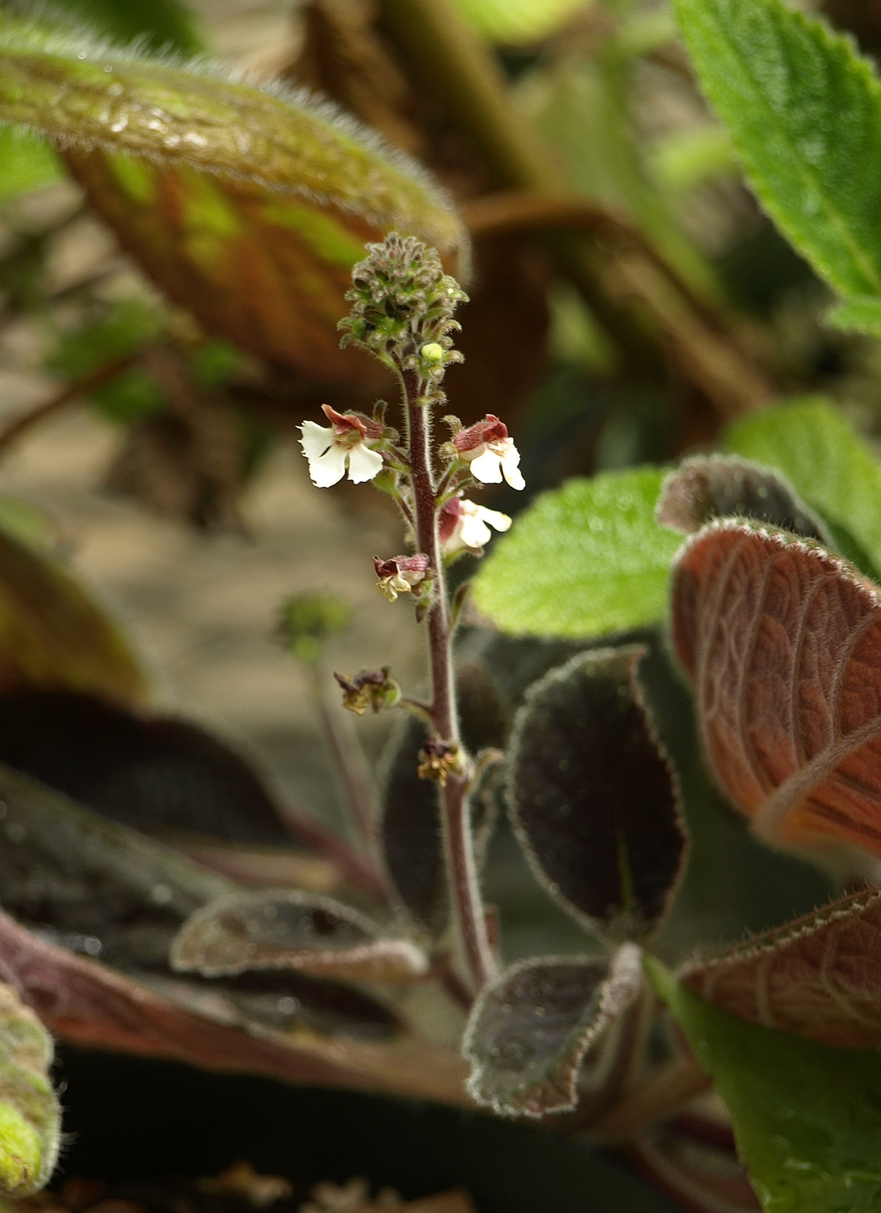 Gloxinia erinoides Greenhouse, Florida International University, Miami, Florida, USA